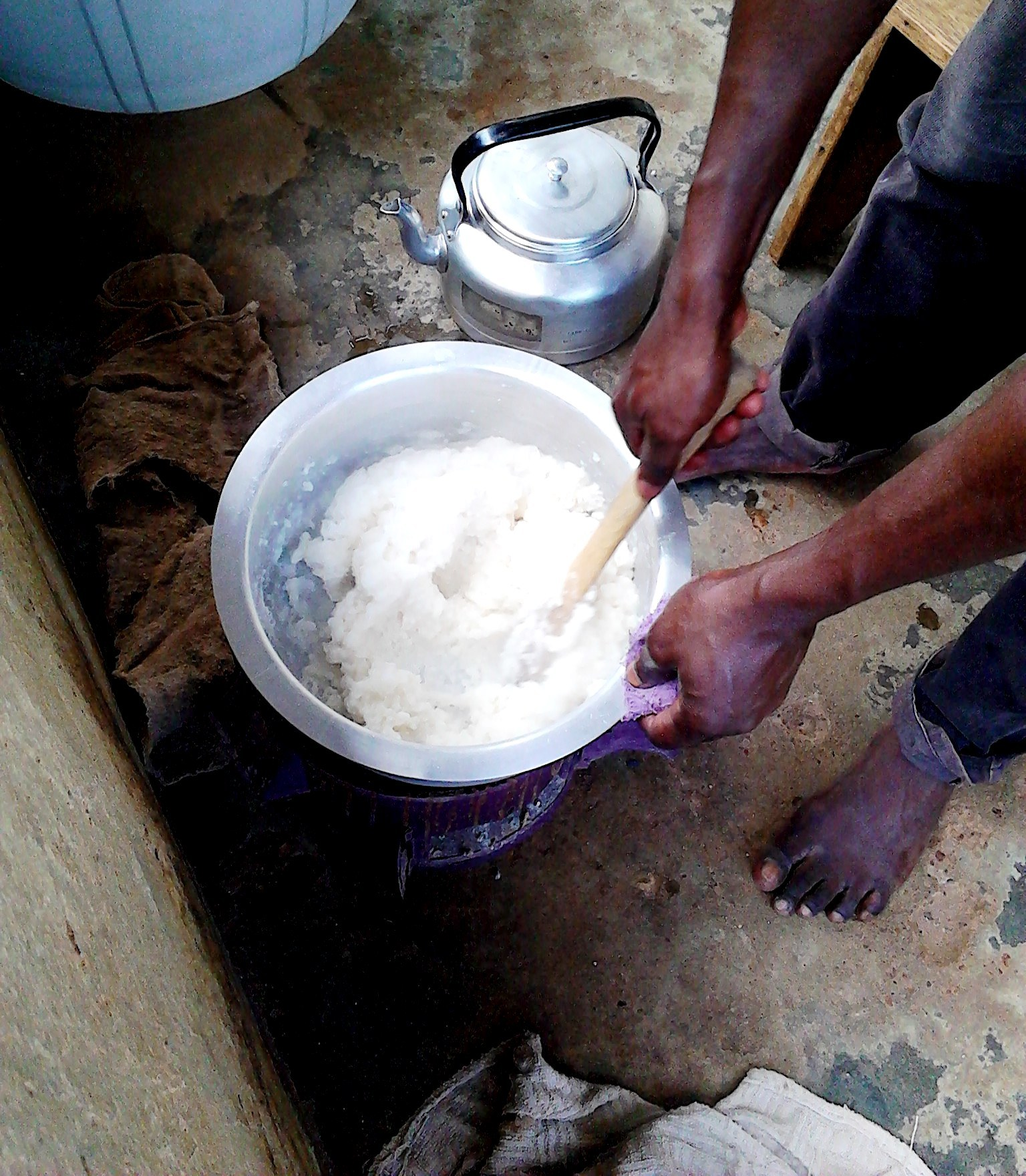 Preparing Posho / mingling posho This is an image of food from Uganda